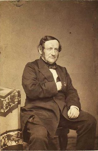 Danish industrialist and politician Meyer Herman(n) Bing (1807-1883)